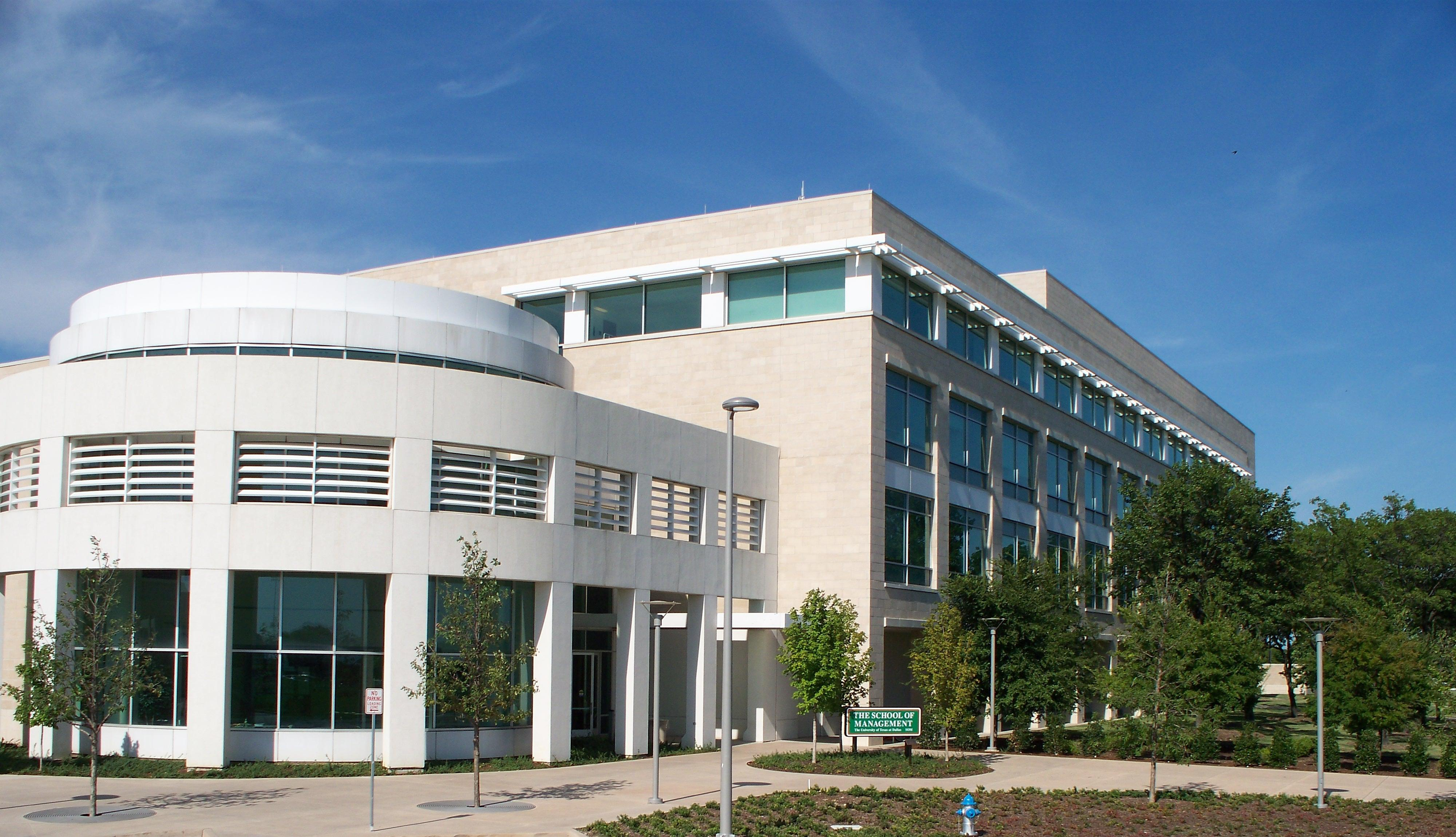 The University of Texas at Dallas School of Management 07/26/2010